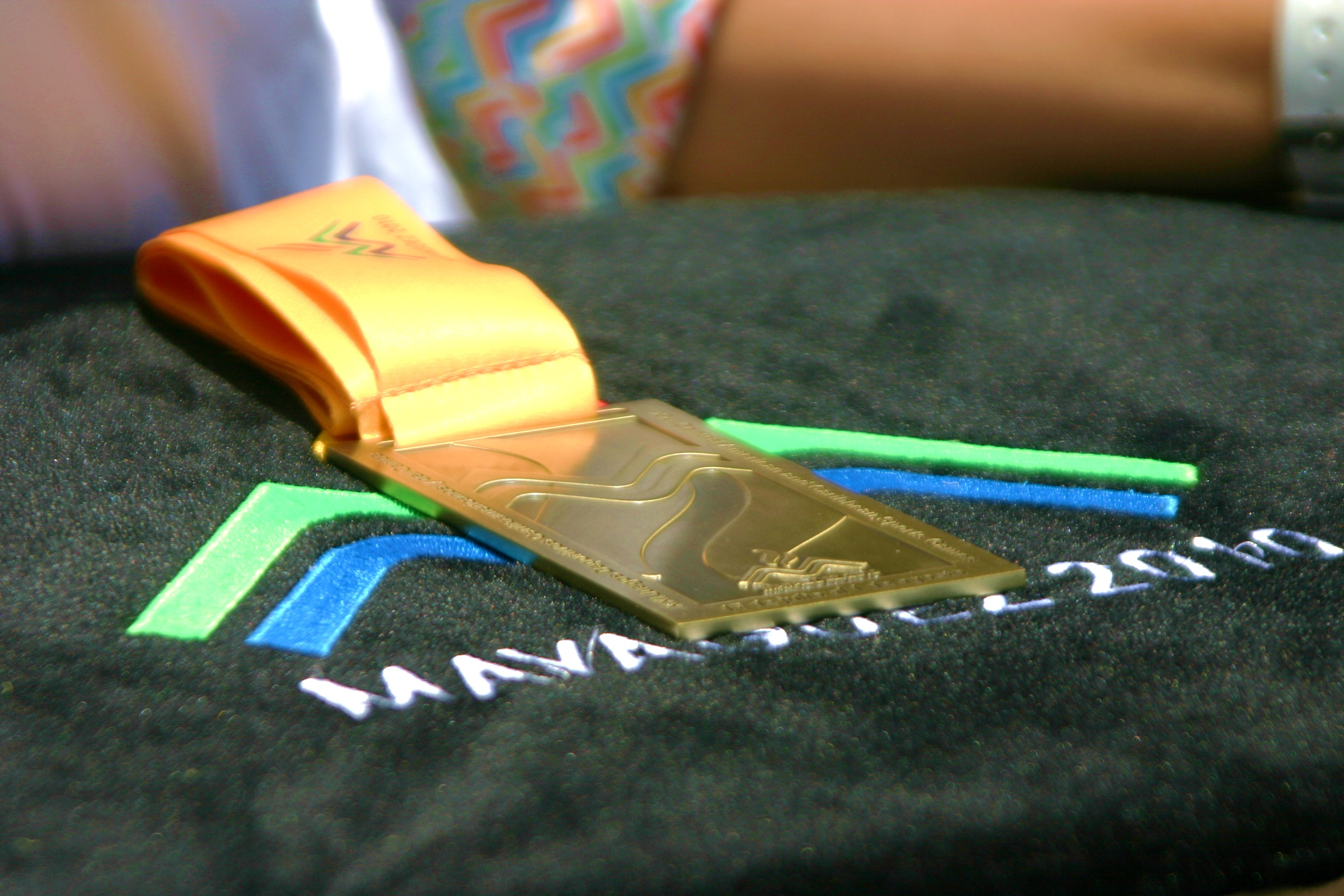 Mayaguez, PR Triathlon event